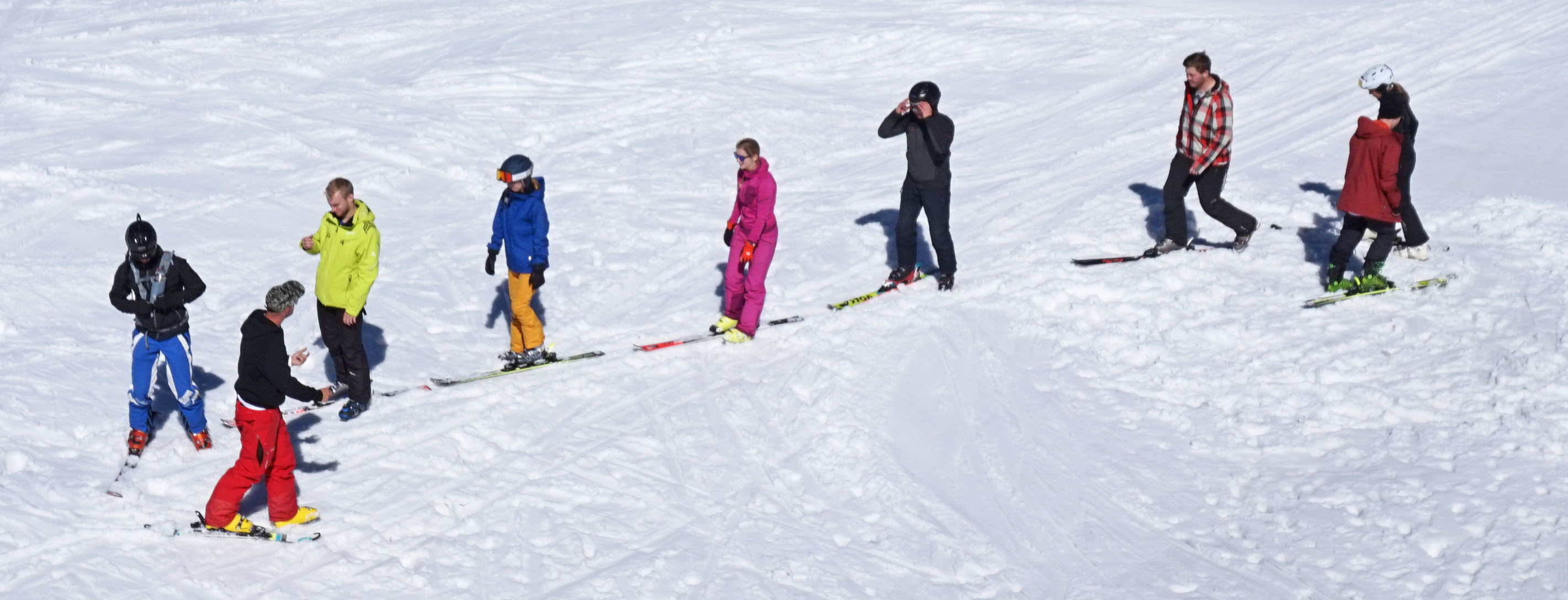 Ski practicing on the Hintertux Glacier, Austria. This photograph was taken with a Sony Alpha a5000.